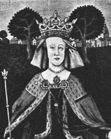 Detail of a picture of Queen Ediva